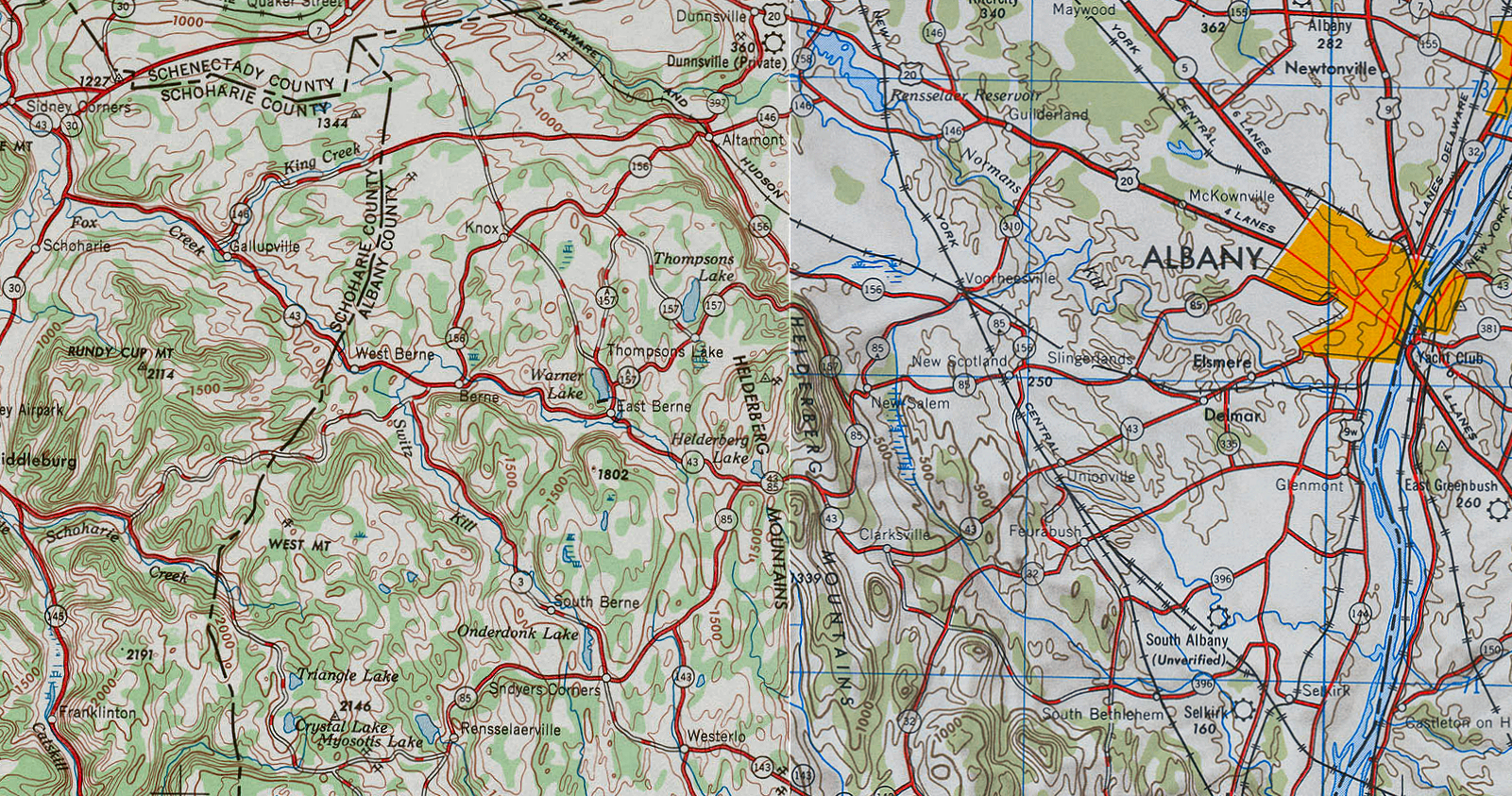 A map of New York State Route 43's former routing west of Albany, New York, created by cropping portions of the United State Geological Survey's 1947 Albany and 1948 Binghamton 1:250,000 scale quadrangles and splicing them together.